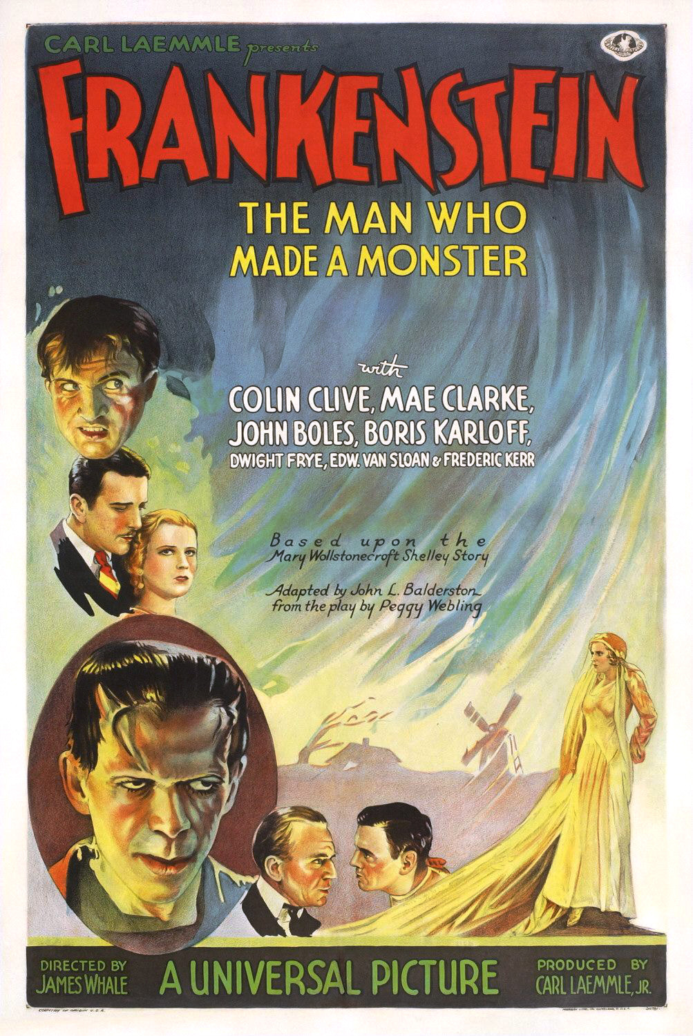 The official theatrical of Frankenstein (1931). The copyright is believed to be owned by Universal Pictures, and/or its graphic artist.